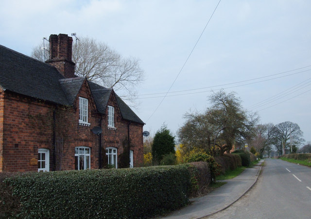 Hollinsgreen, Cheshire Hollinsgreen is a collection of attractive cottages along Wood Lane. The hamlet is situated in the centre of a triangle formed by the towns of Holmes Chapel, Middlewich and Sandbach. View looking north up Wood Lane.